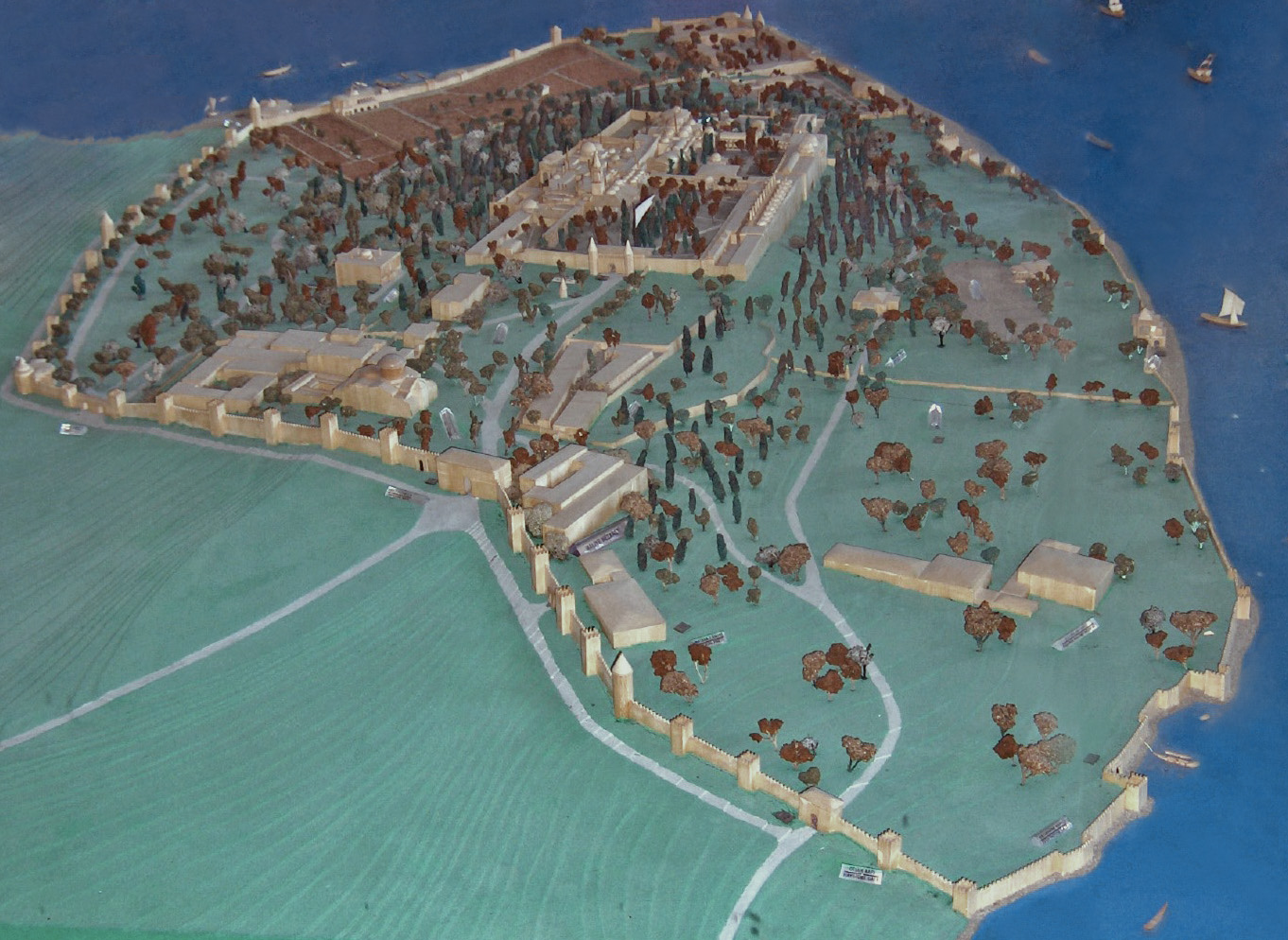 scale model of the Topkapi Palace, Istanbul, Turkey